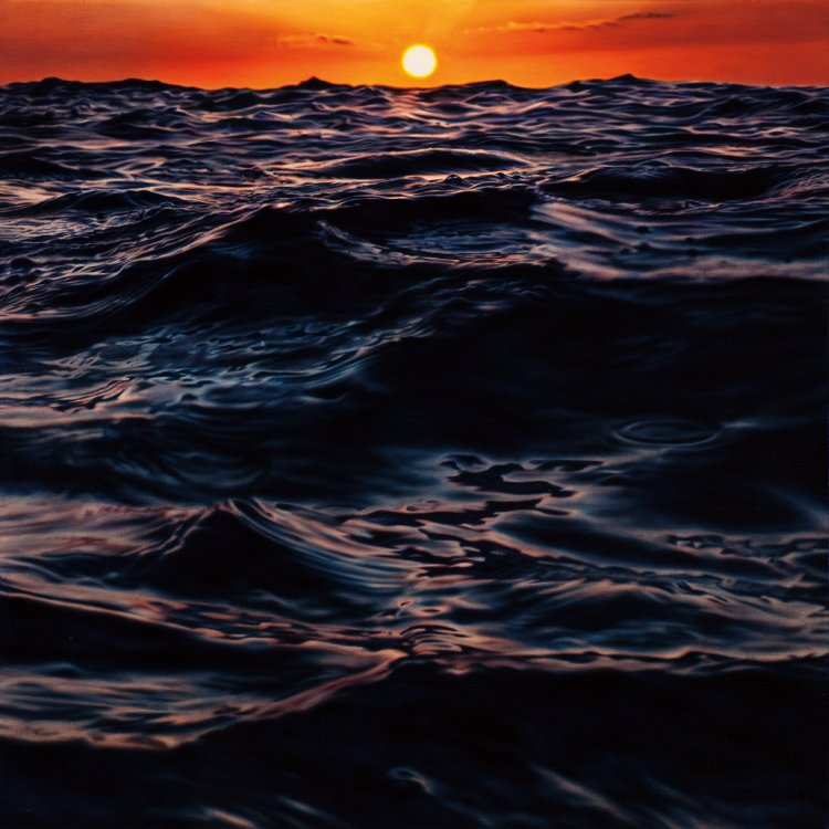 Rayleigh Scattering a Painting by Damian Loeb, 2013 36x36in Oil on Linen